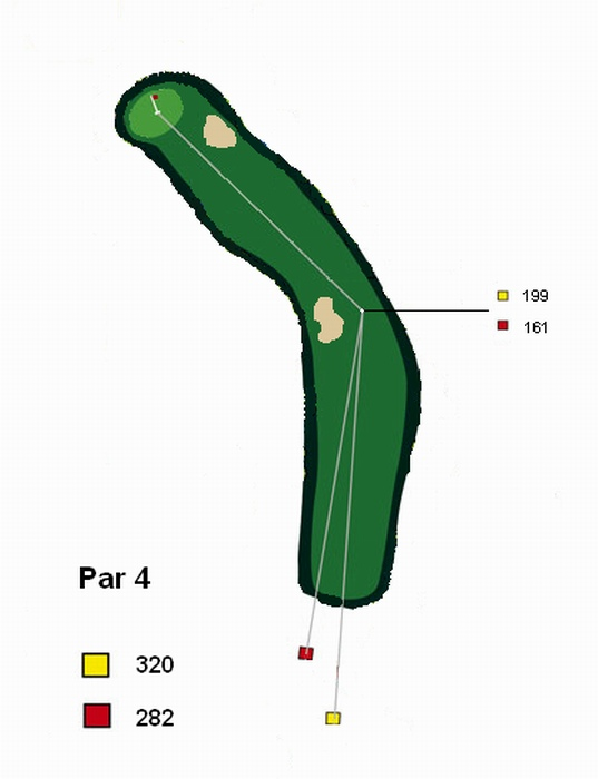 Typical dogleg on a Par-4-hole